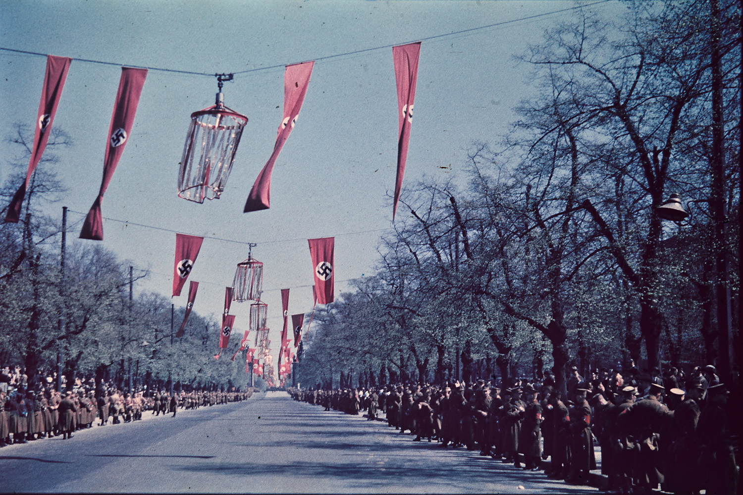 Large crowds and decorated streets with Nazi banners, Labour Day (May 1st) 1937. Men in uniforms and a car. Berlin's 700th anniversary.